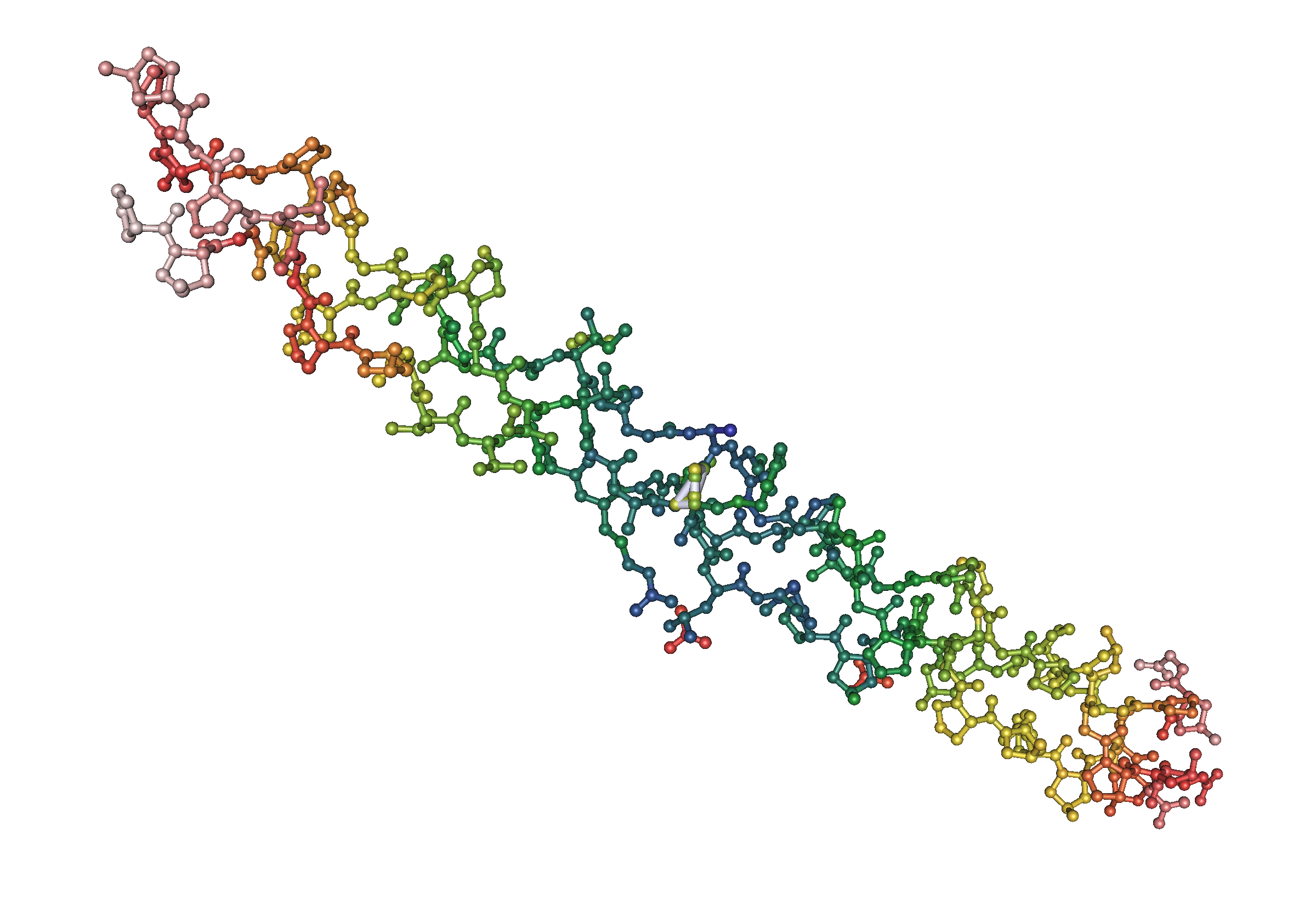 1bkv_collagen triple helix